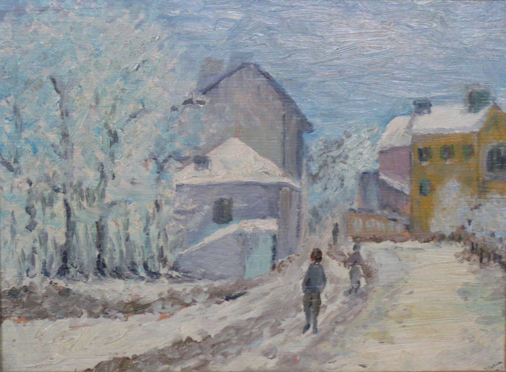 oil on plywood (27,5 cm x 21 cm)